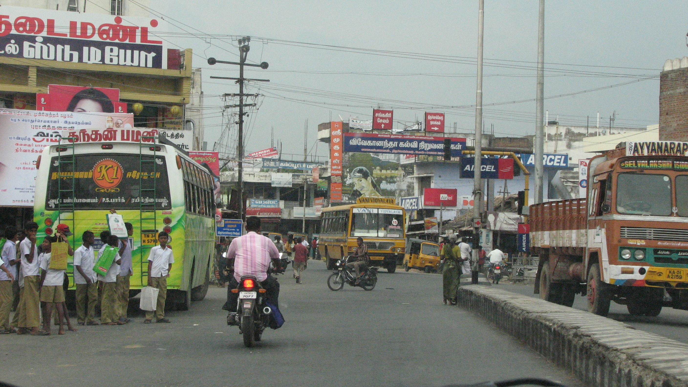 Pallipalayam, Namakkal District, Tamilnadu - Bus Stand